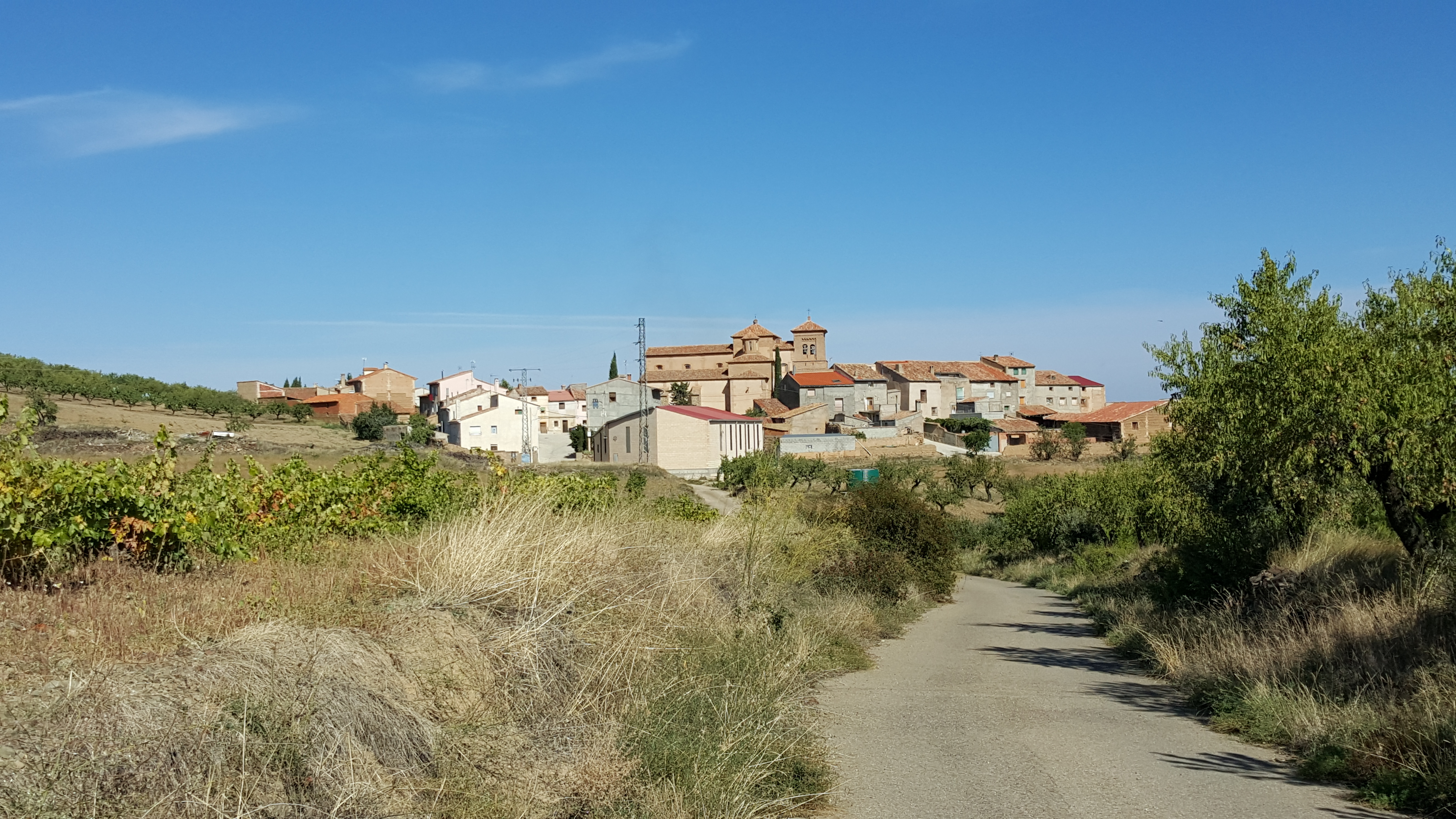 Valdehorna, Zaragoza, Spain